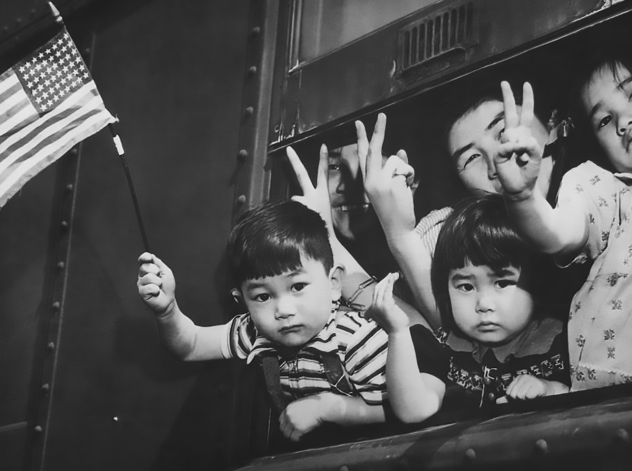 Bainbridge Island (Wash.) evacuation -- Group of young evacuees wave from special train as it leaves Seattle with Island evacuees, March 30, 1942